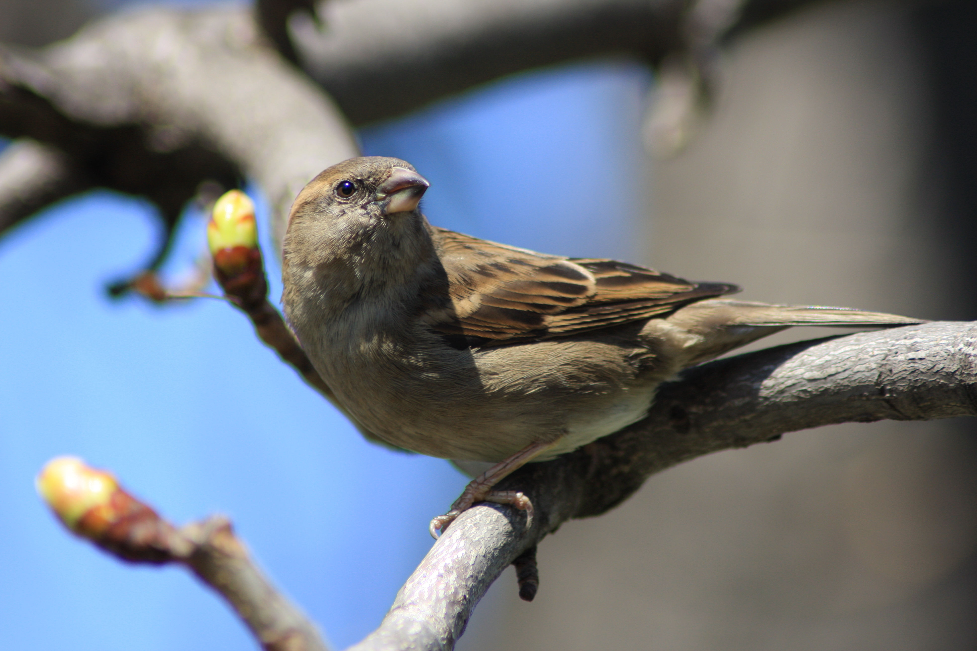 Passer domesticus, probably in Romania